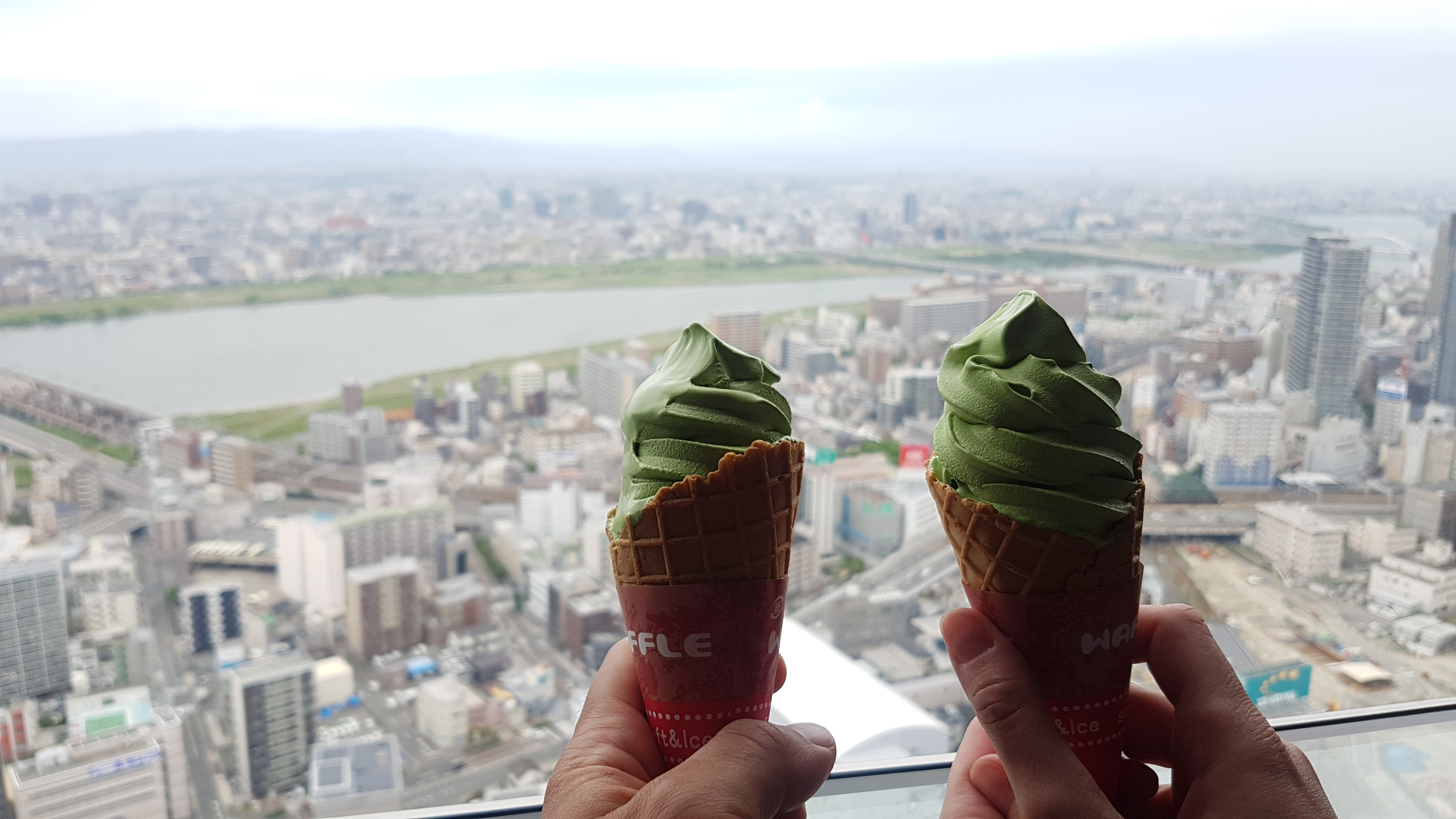 Matcha ice-creams at Umeda Sky Building Observatory